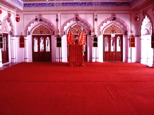 Imambargah Wazeer-un-Nisa at Mohalla Danishmandaan, Amroha, India